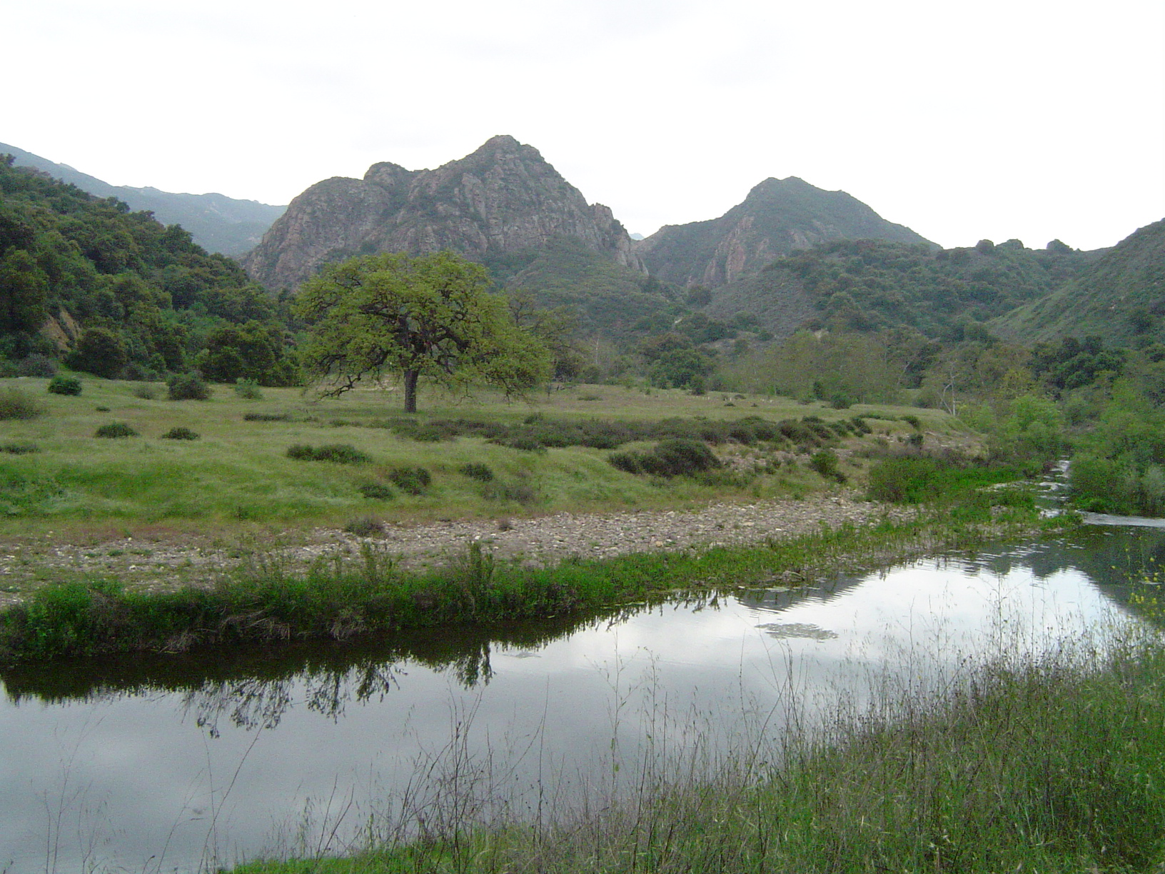 Photographed and uploaded by user:Geographer. Malibu Creek, with a sole valley oak against the backdrop of the conejo volcanic peaks, known as the Goat Buttes, in Santa Monica Mountains.